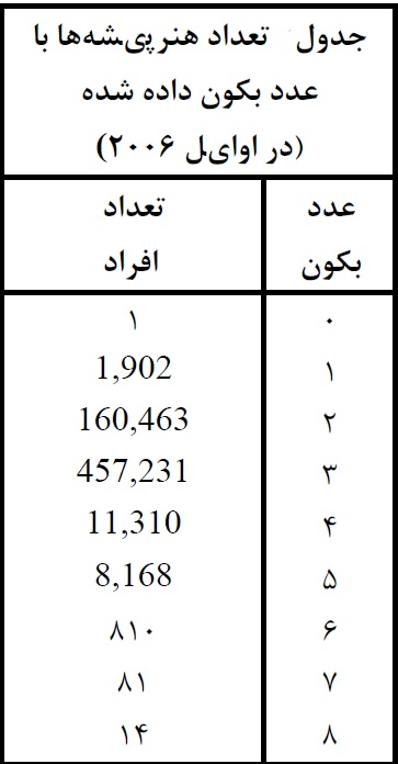 جدول هنرپیشه ها